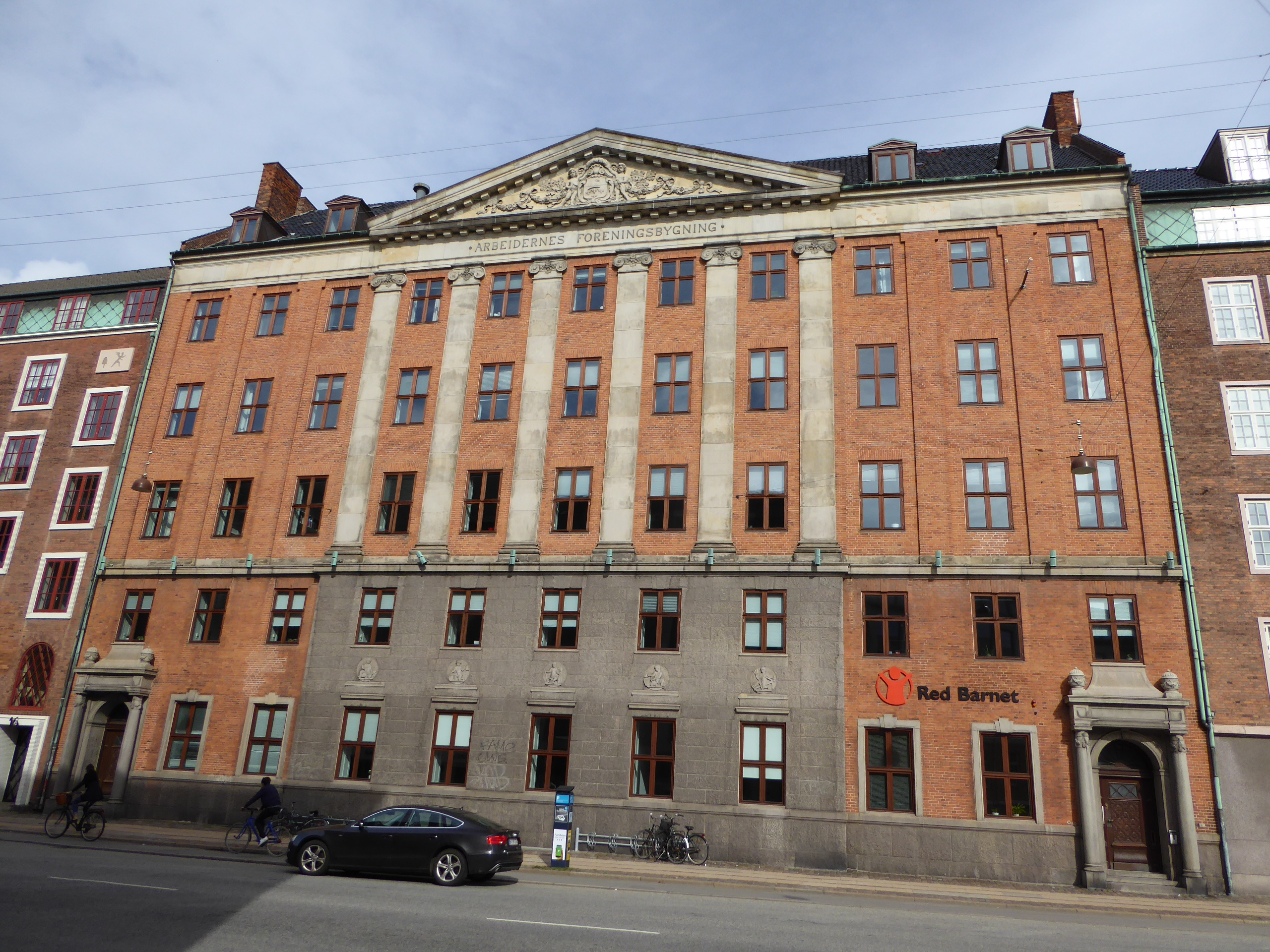 Arbejdernes Foreningsbygning at Rosenørns Allé in Copenhagen. The building is the Danish head office of Red Barnet (Save the Children).